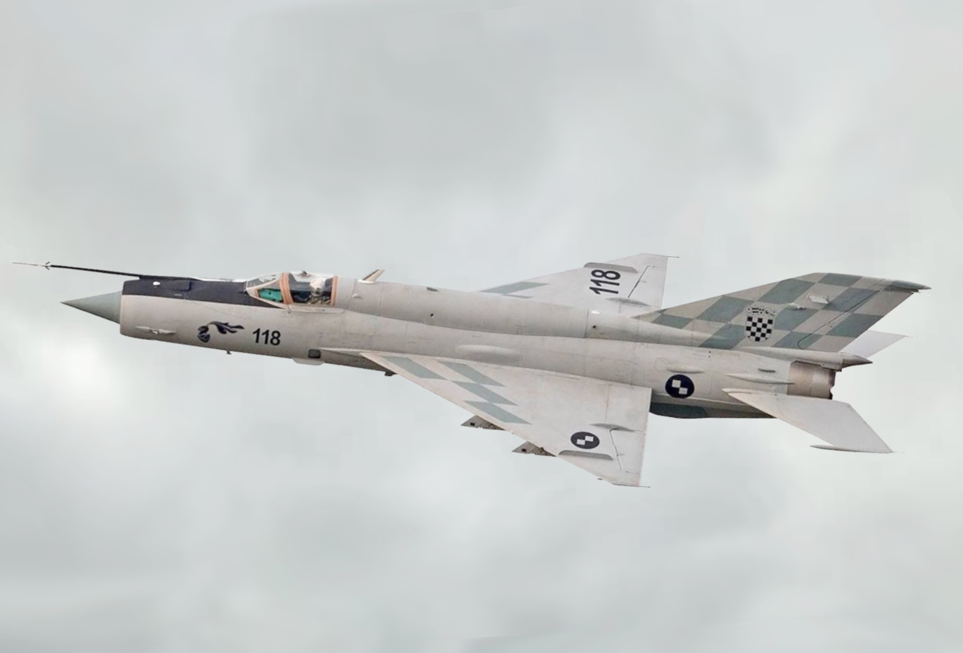 MiG-21